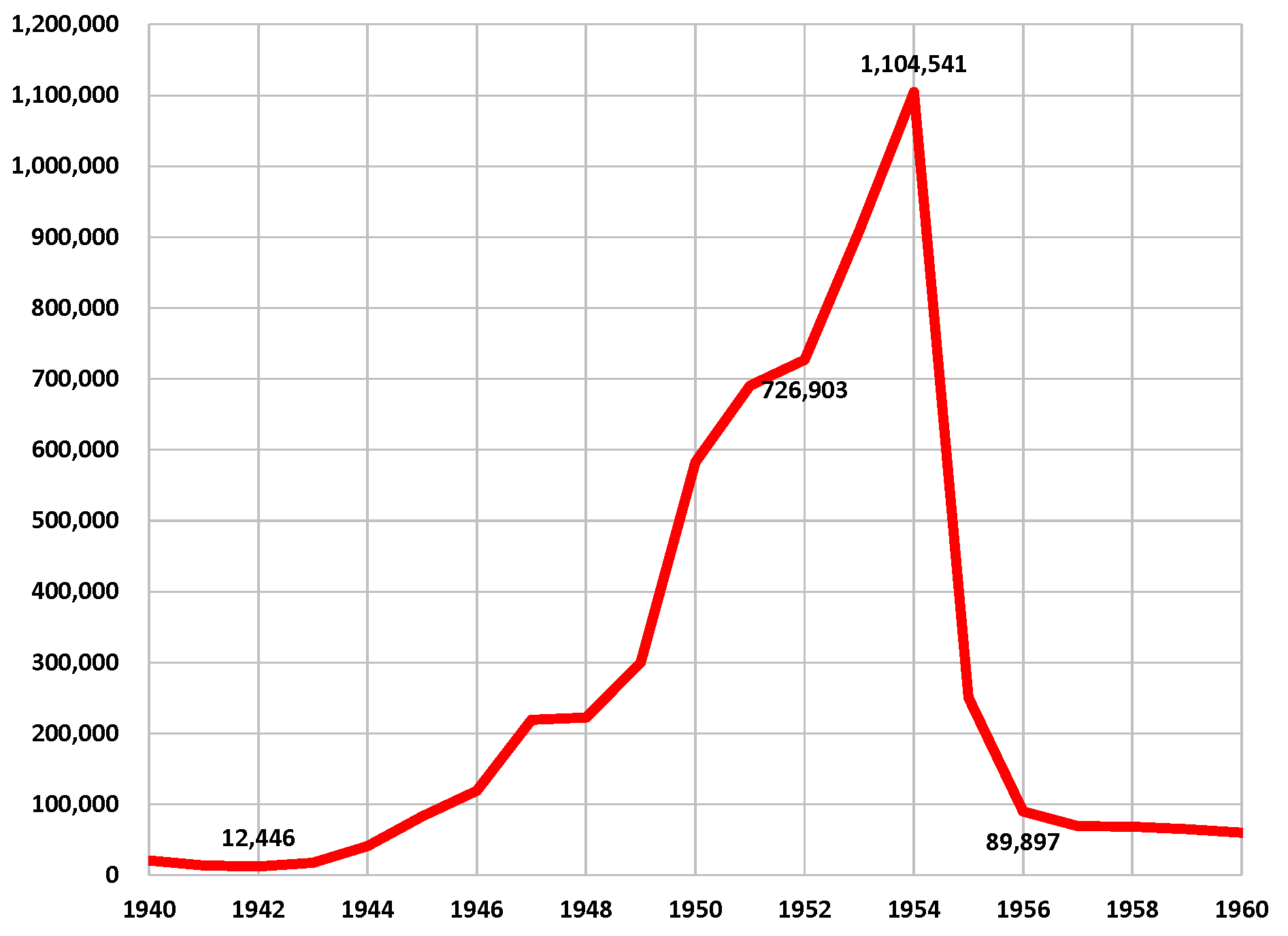 United States immigration enforcement actions (returns and removals) 1940-1960. Data from Dept. of Homeland Security